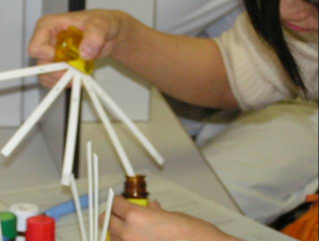 Triangle Odor Bag Method (2)